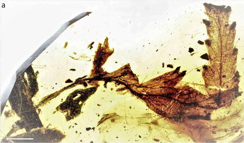 Fossil of Cystodium sorbifolioides in Burmese amber (GZG.BST.21964). (a) Holotype; large leaf fragment (GZG.BST.21964a). (b) Smaller leaf fragments (GZG.BST.21964b,c).